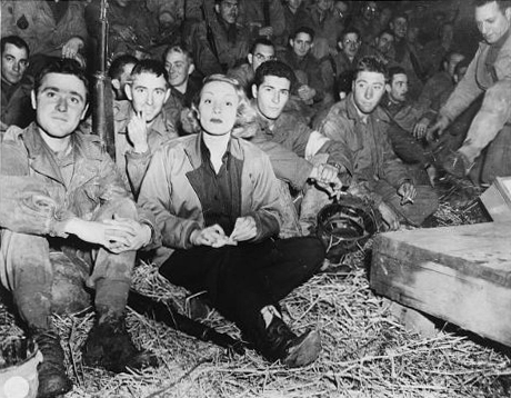 Title: [Marlene Dietrich, somewhere in France, sitting on the ground with soldiers in an audience, at the foot of a platform stage] Date Created/Published: 1944. Medium: 1 photographic print. Reproduction Number: LC-DIG-ppmsca-24372 (digital file from original photograph) Rights Advisory: No information on creator or on reproduction rights found with the image, 2005. Publication may be restricted. For information see "New York World-Telegram & ...,"( Call Number: NYWTS - SUBJ/GEOG--United Service Organizations--Camp shows [item] [P&P] Repository: Library of Congress Prints and Photographs Division Washington, D.C. 20540 USA Notes: Title devised by Library staff. Forms part of: New York World-Telegram and the Sun Newspaper Photograph Collection (Library of Congress).